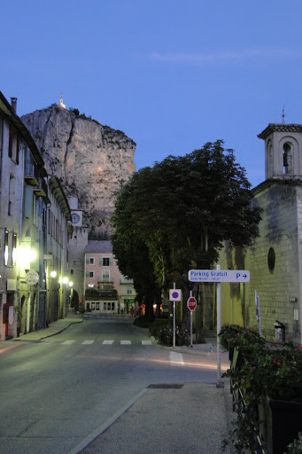 Castellane